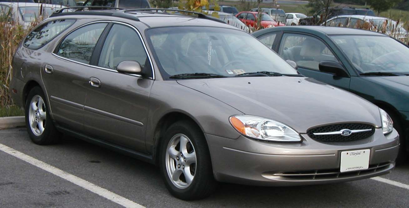 2000-2003 Ford Taurus wagon photographed in USA.